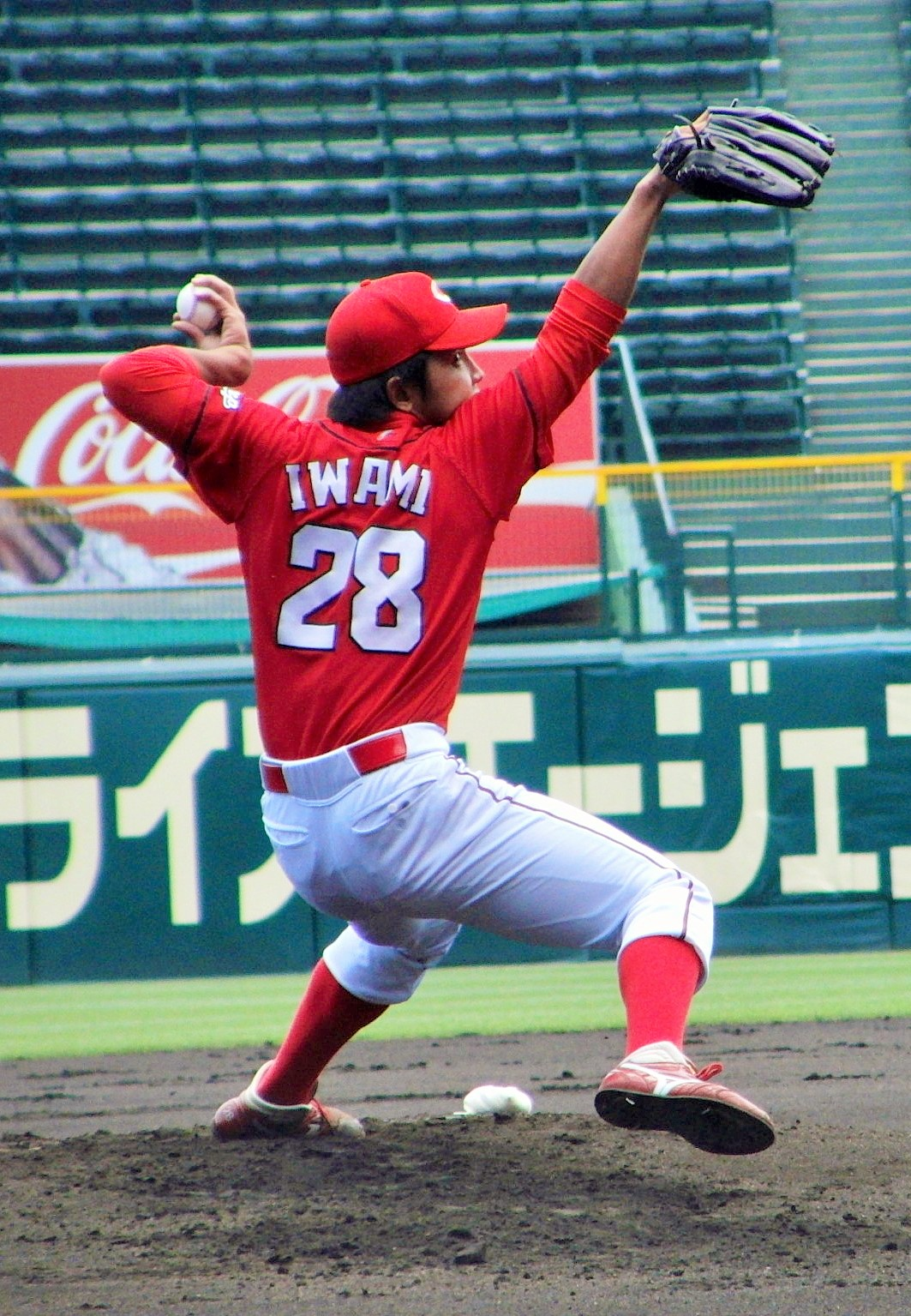 Yuki Iwami, pitcher of the Hiroshima Toyo Carp, at Hanshin Koshien Stadium.